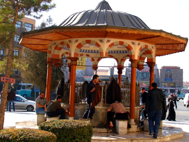 Pavilion in the City of Konia, Central Anatolia, Turkey. Own work; December 2004